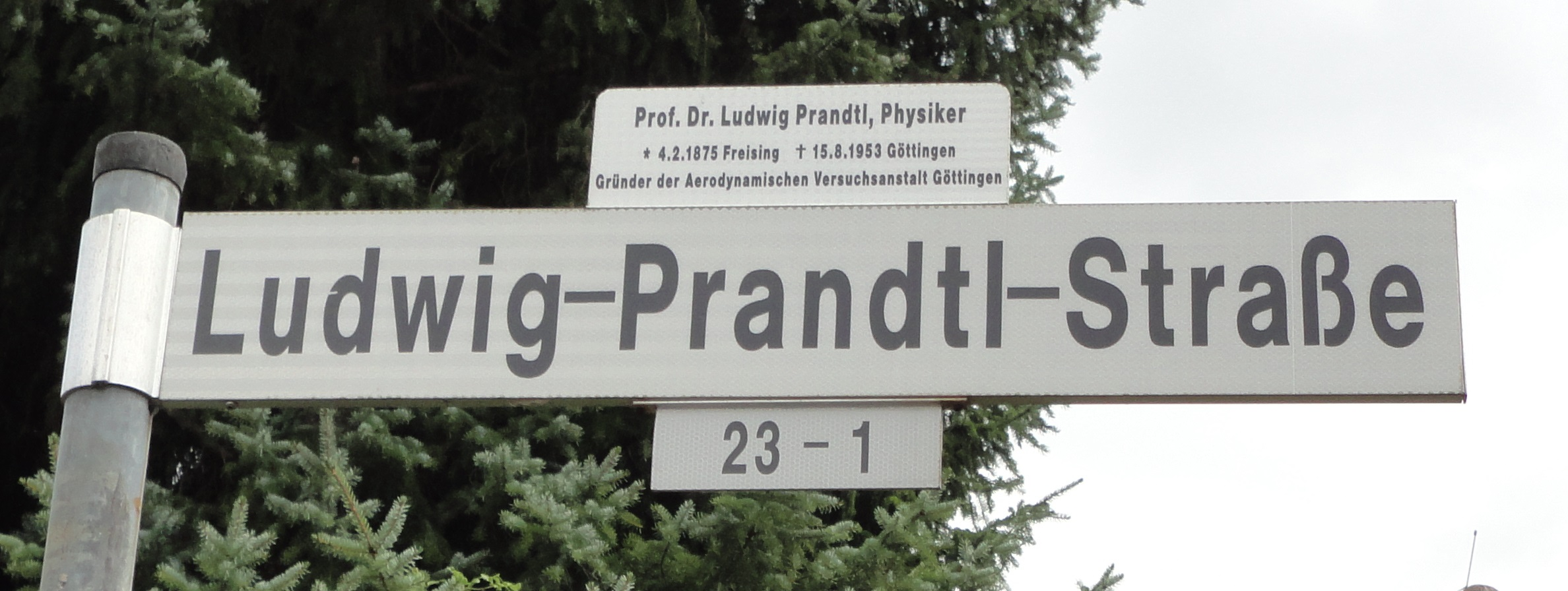 Göttingen-Weende, road sign Ludwig-Prandtl-Strasse